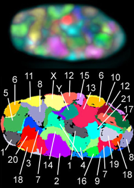 Top: FISH (Fluorescence in situ hybridization) labeling of all 24 different human chromosomes (1 - 22, X, and Y) in a fibroblast nucleus, each with a different combination of in total seven fluorochromes. Shown is a mid-plane of a deconvoluted image stack which was recorded by wide-field microscopy. Bottom: False color representation of all chromosome territories visible in this mid-section after computer classification.